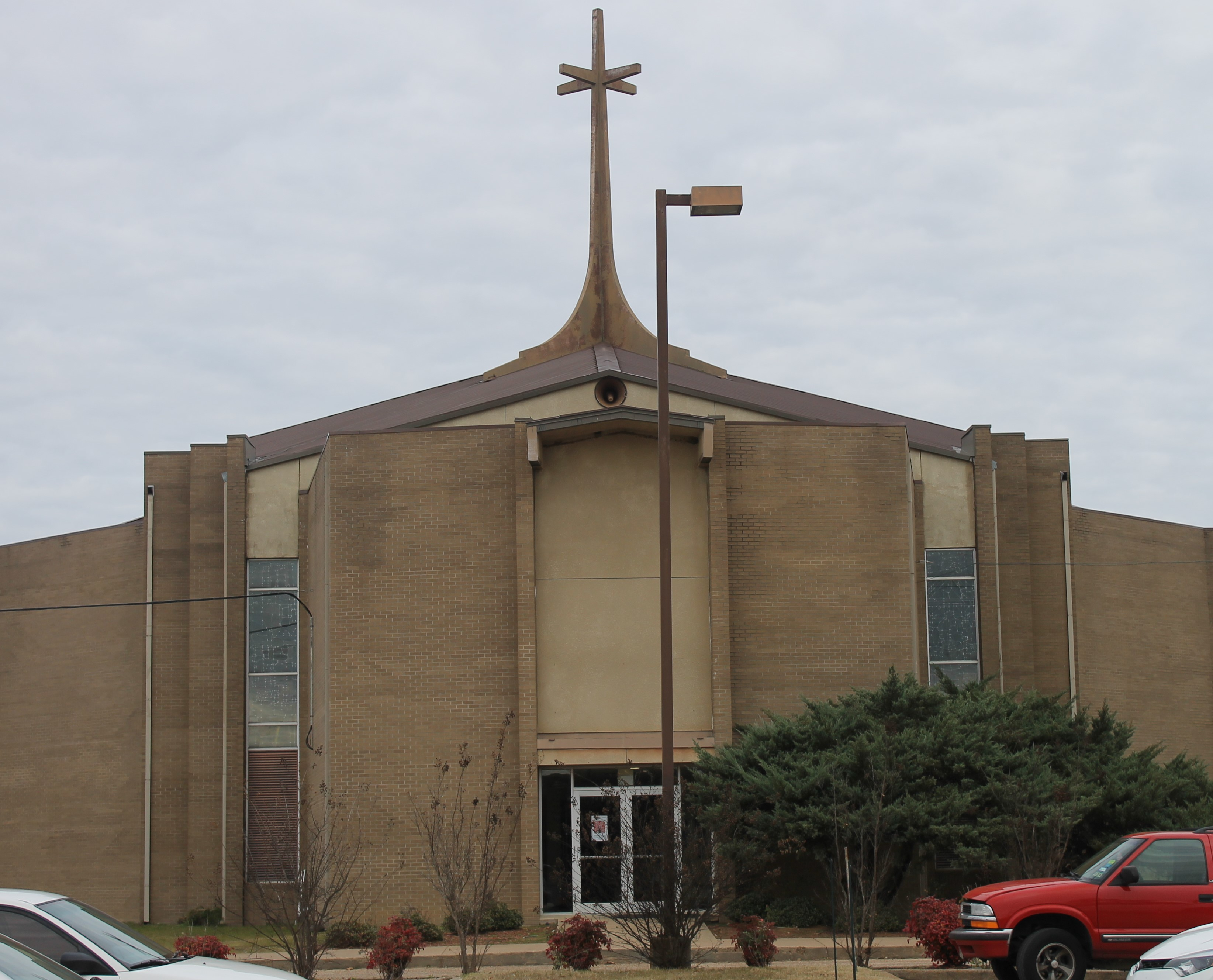 J. N. Ervin Religion and Culture Center at Jarvis Christian College, Hawkins, TX